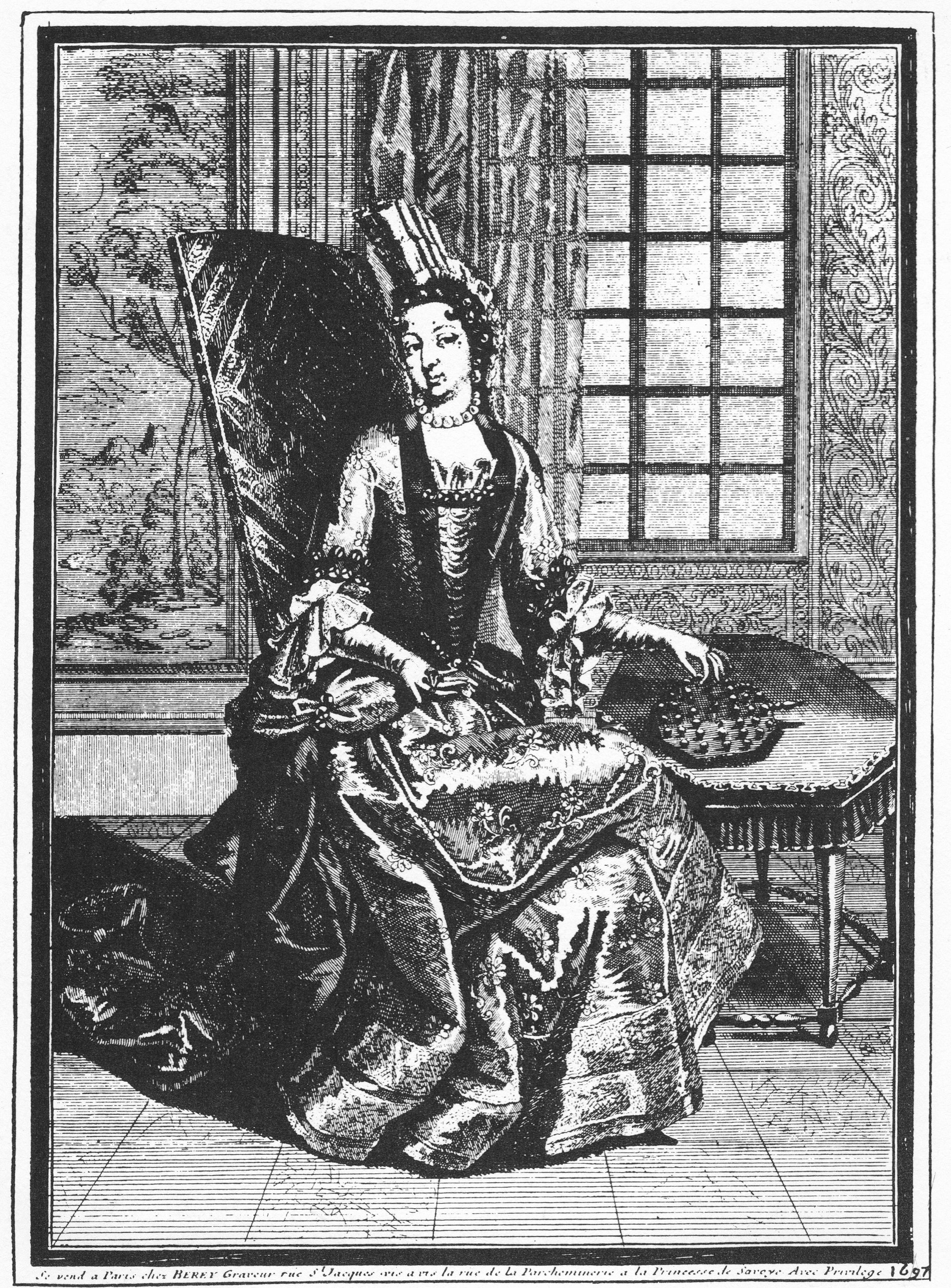 Anne Chabot de Rohan Princesse de Soubise (1663-1709) with Peg Solitaire, portrait painting, 1687. This is the first known document proving the existence of that game.